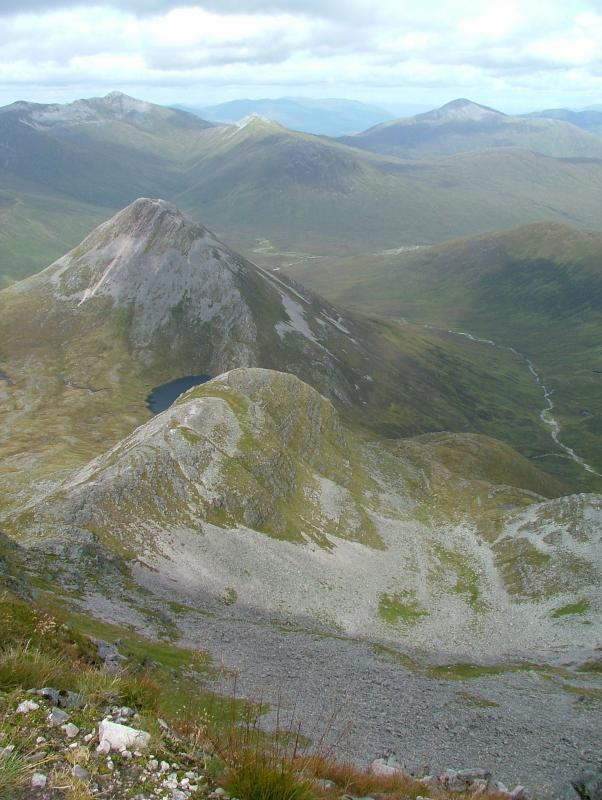 Binnein Beag from Binnein Mor, with the Grey Corries in the background